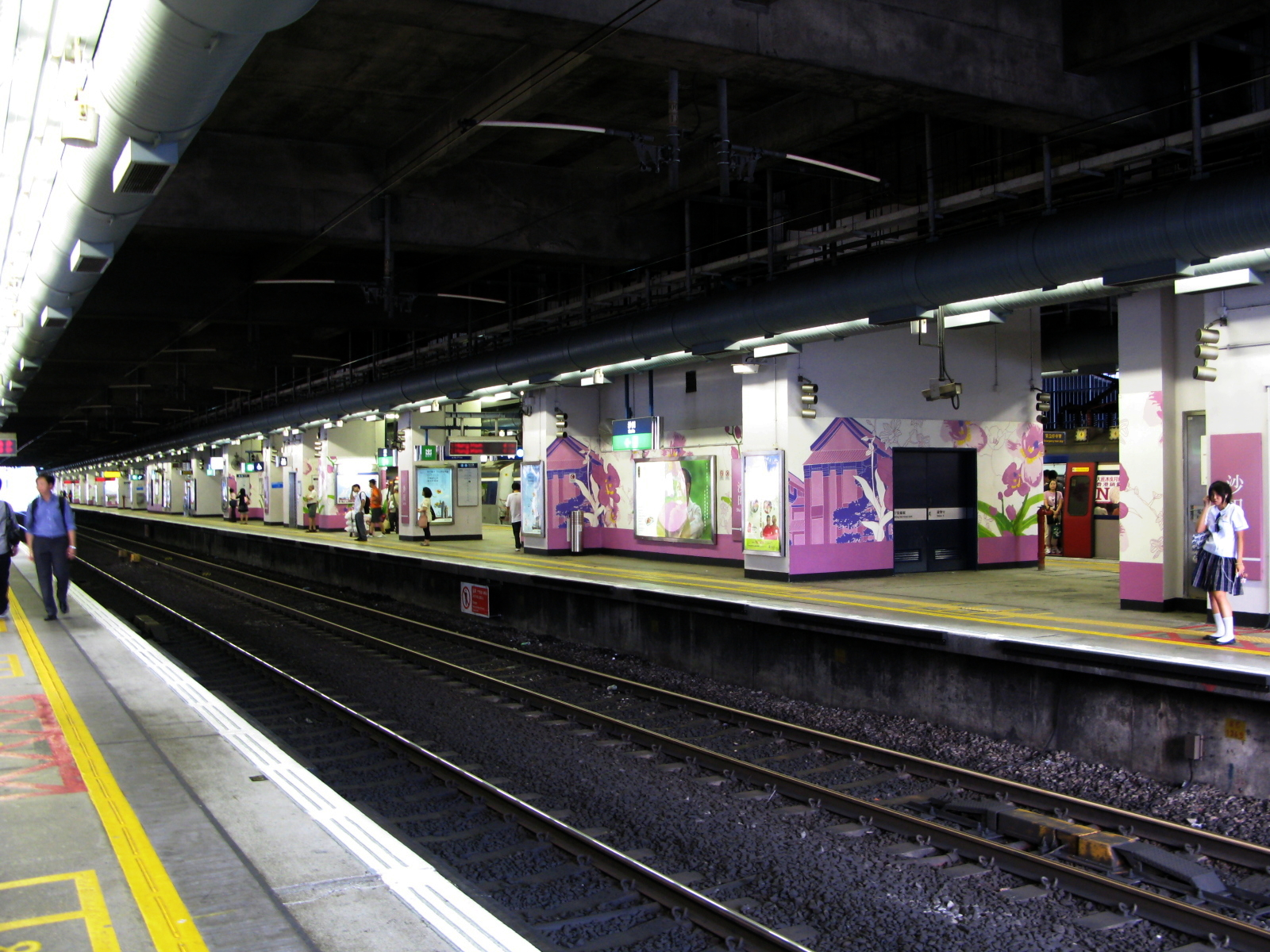 Shatin Station Platform 沙田站室內部分月台